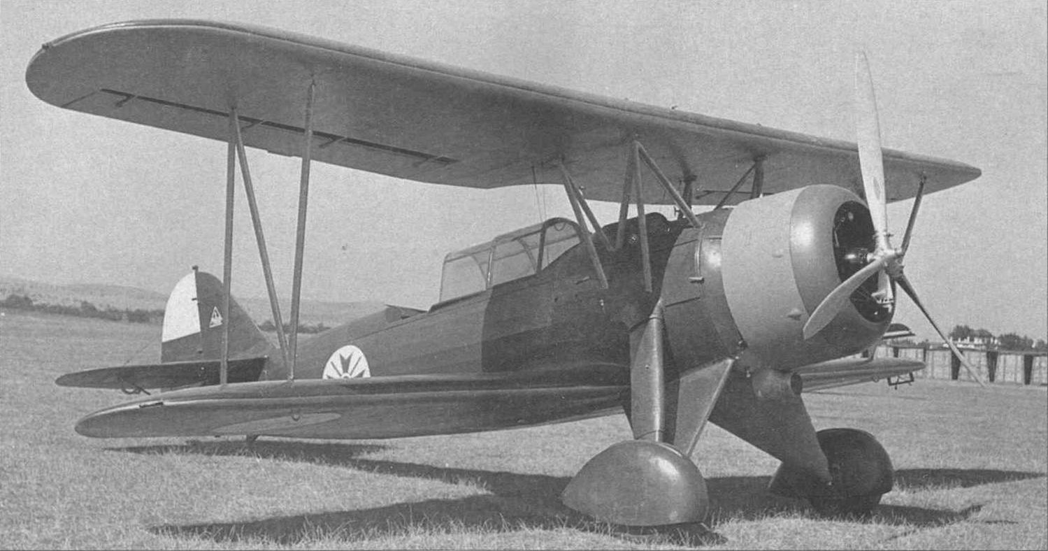 DAR-3 "Raven"